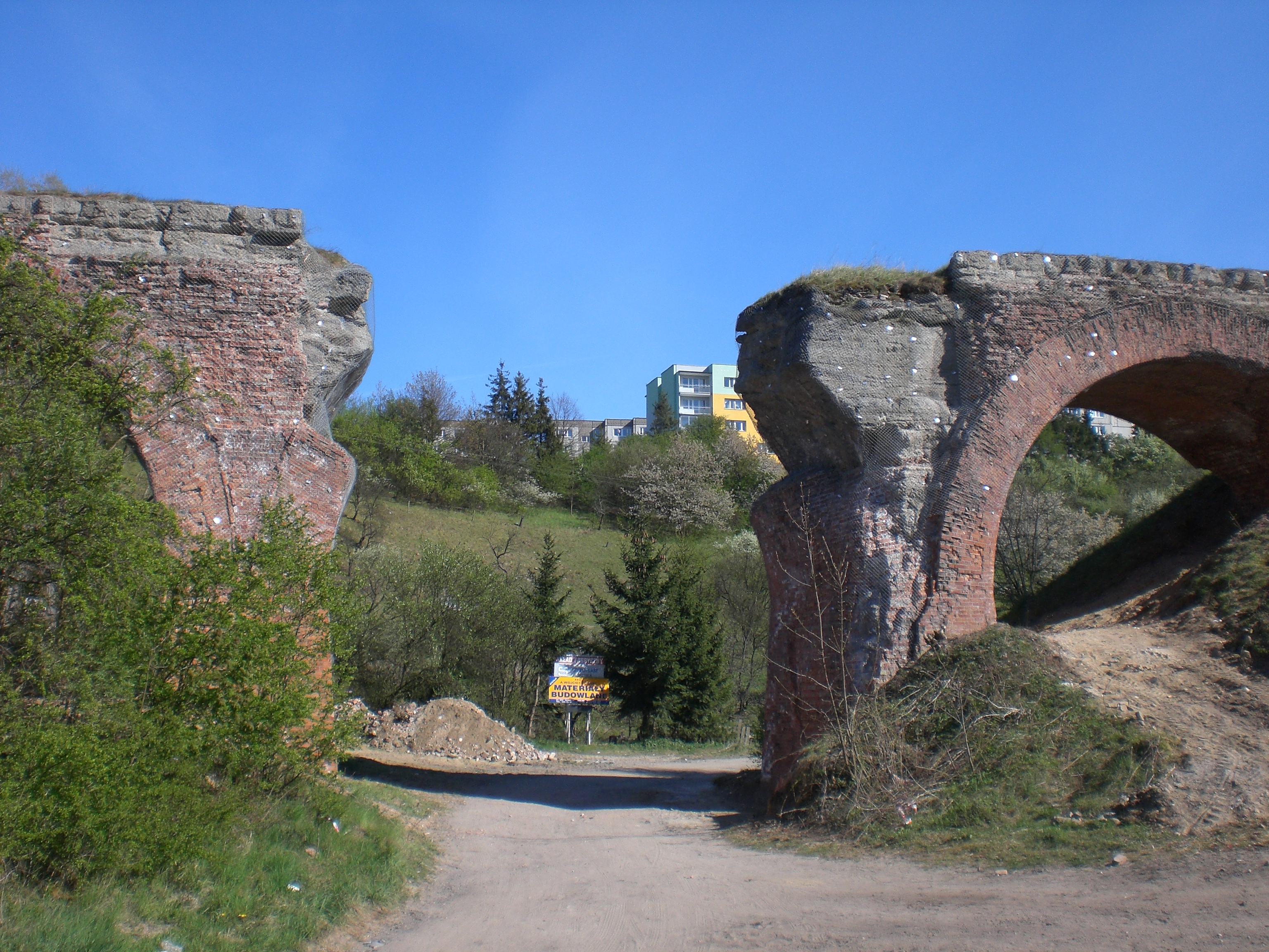 Former railway line from Gdańsk Wrzeszcz to Stara Piła